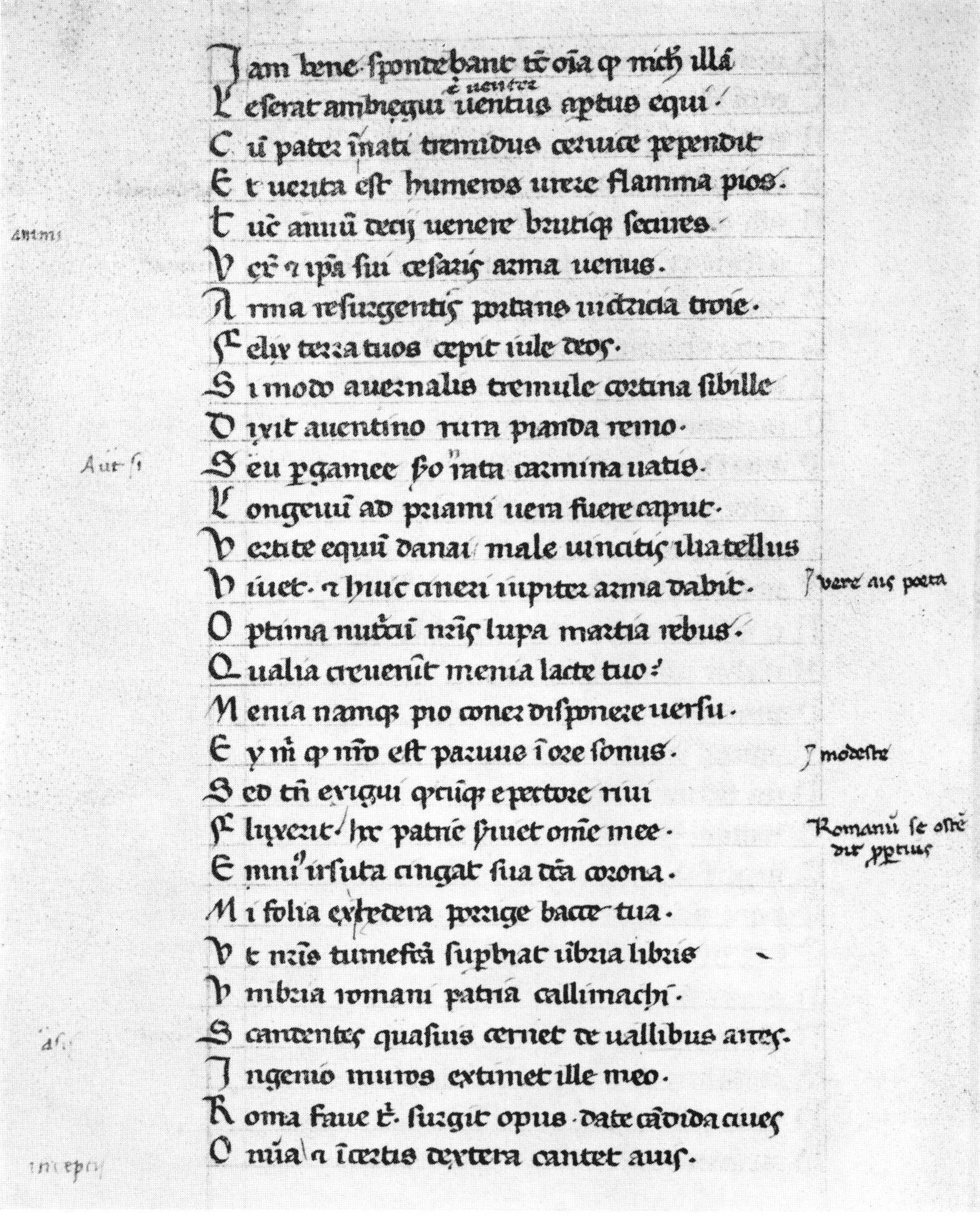 Propertius, Elegies in a manuscript owned by Coluccio Salutati. Florence, Biblioteca Medicea Laurenziana, Plut. 36, 49, fol. 57v.